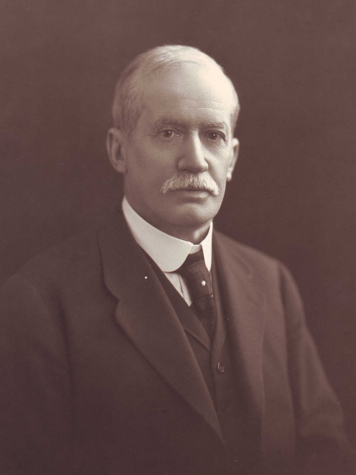 George Brookman, member of the Council of the University of Adelaide 1901-1926